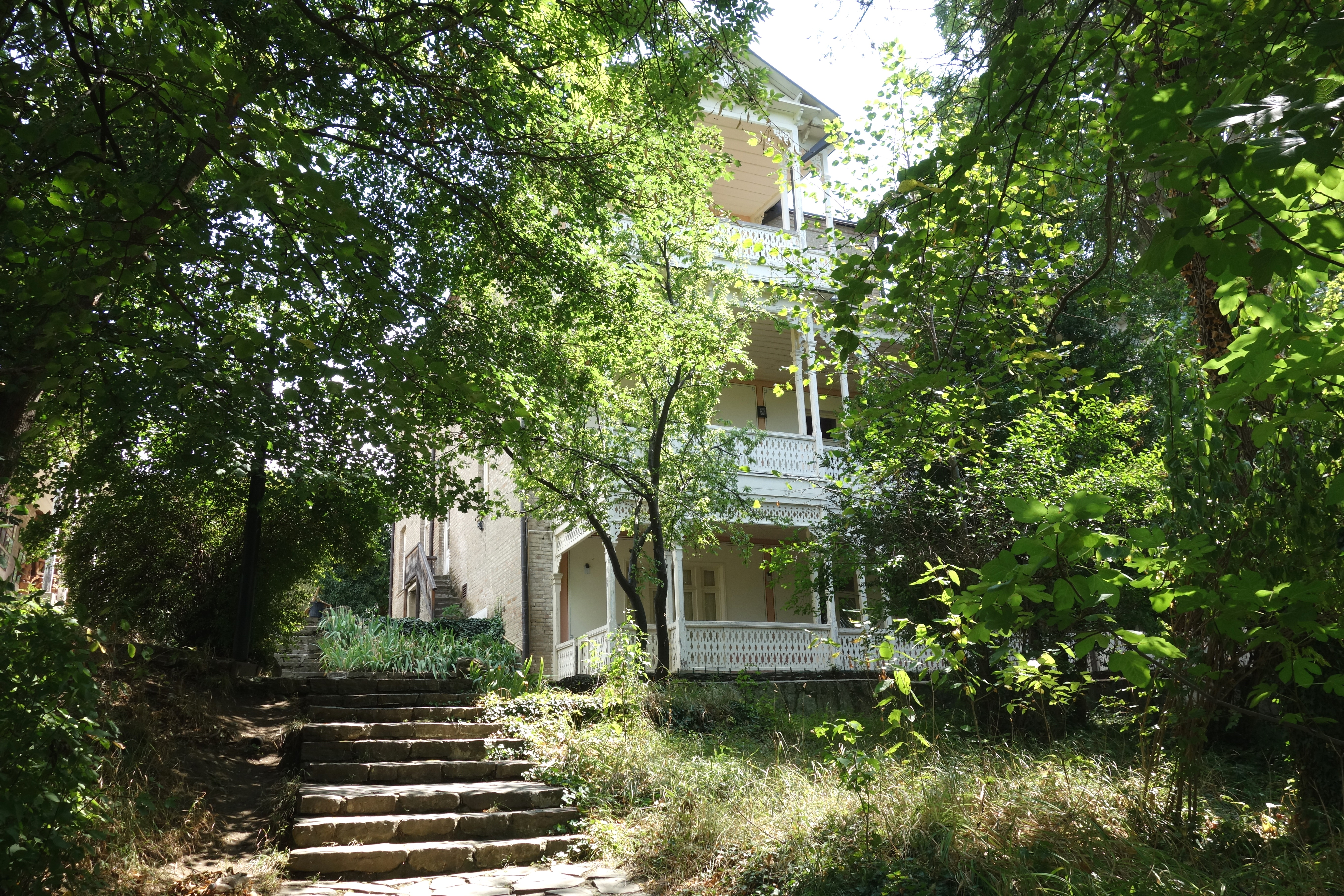 Ilia Chavchavadze House Museum, Saguramo, Georgia